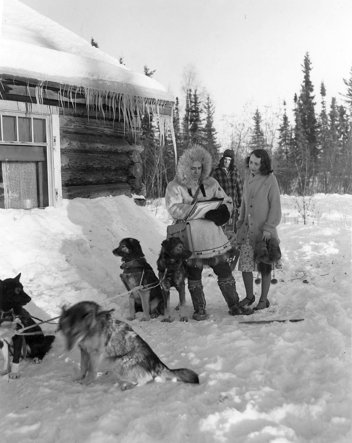 This 1940 Census publicity photo shows a census worker (left) collecting information from a respondent (right) in Fairbanks, Alaska. The dog musher (center, background) remains out of earshot to maintain confidentiality.